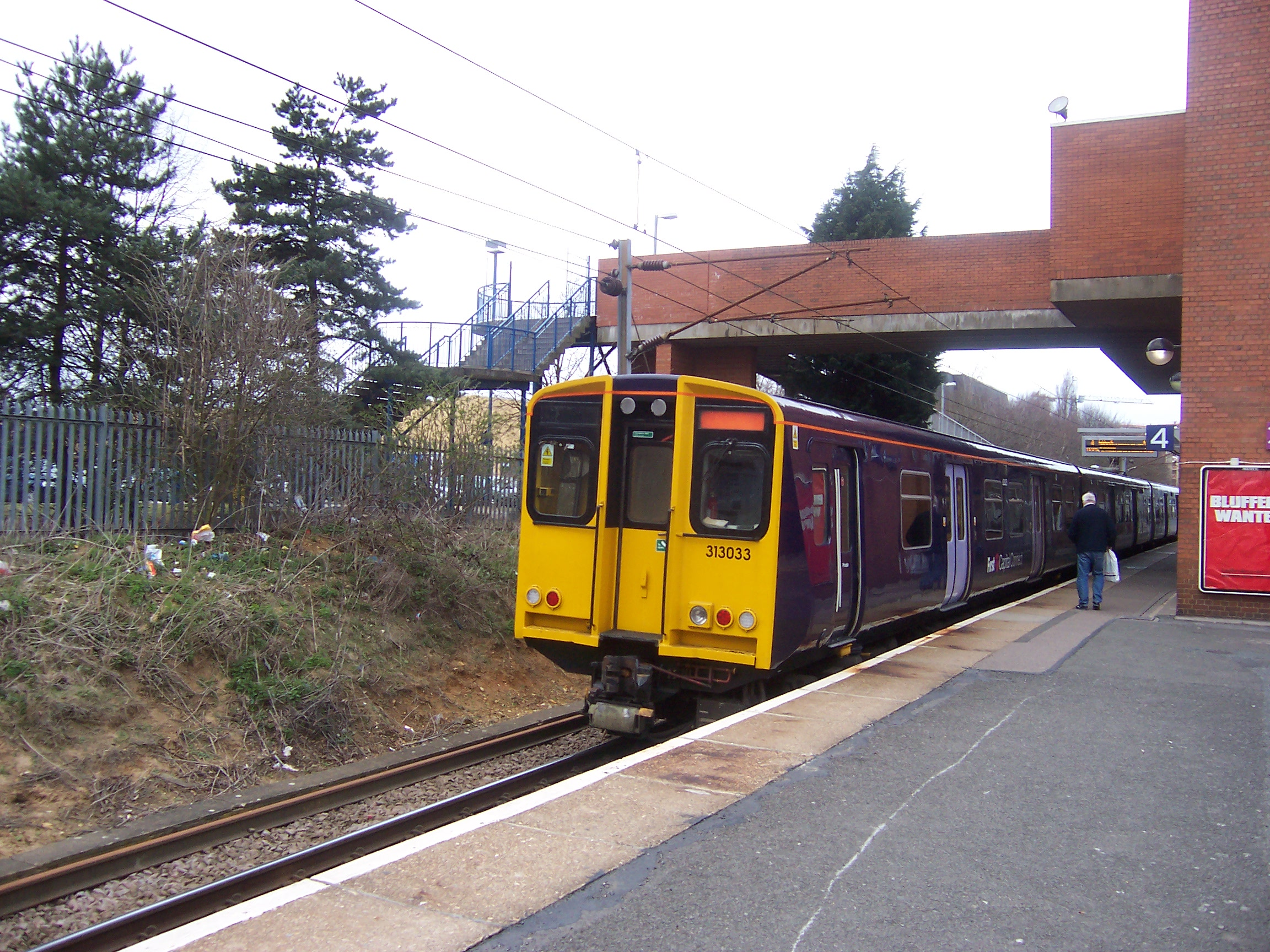 Unit 313033 is at Stevenage sporting a purple WAGN livery, albeit with First Capital Connect decals.